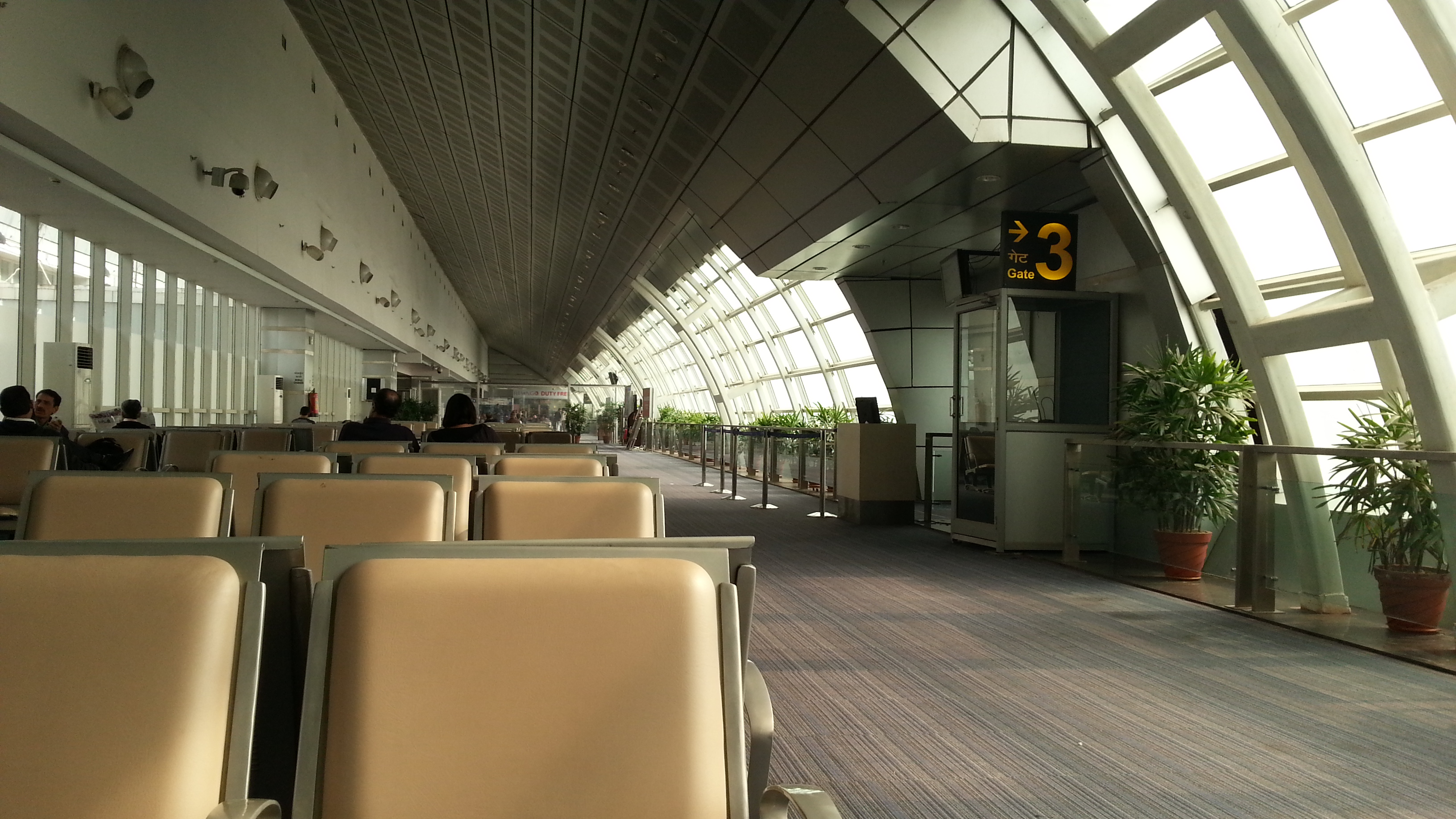 Inside Terminal 2